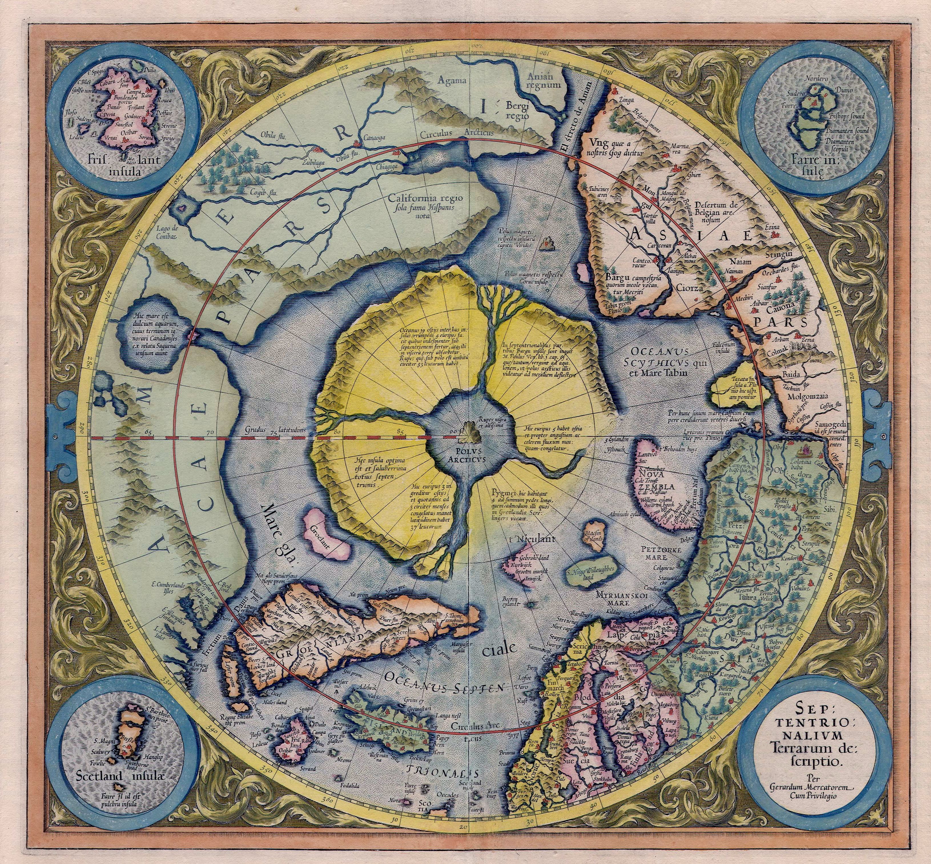 Mercator: Septentrionalium Terrarum descriptio. A map of the North Pole.